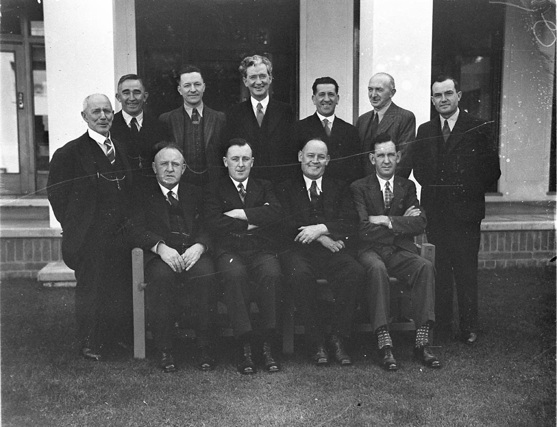 Lang Labor members of the 14th Parliament, Old Parliament House, Canberra, 1935. Standing (from left) Senator Arthur Rae, Hubert Lazzarini, Eddie Ward, Joseph Gander, John Garden, Daniel Mulcahy, Joe Clark. Seated (from left), Senator James Dunn, Jack Beasley (John Albert Beasley), Rowland James, Solomon Rosevear.